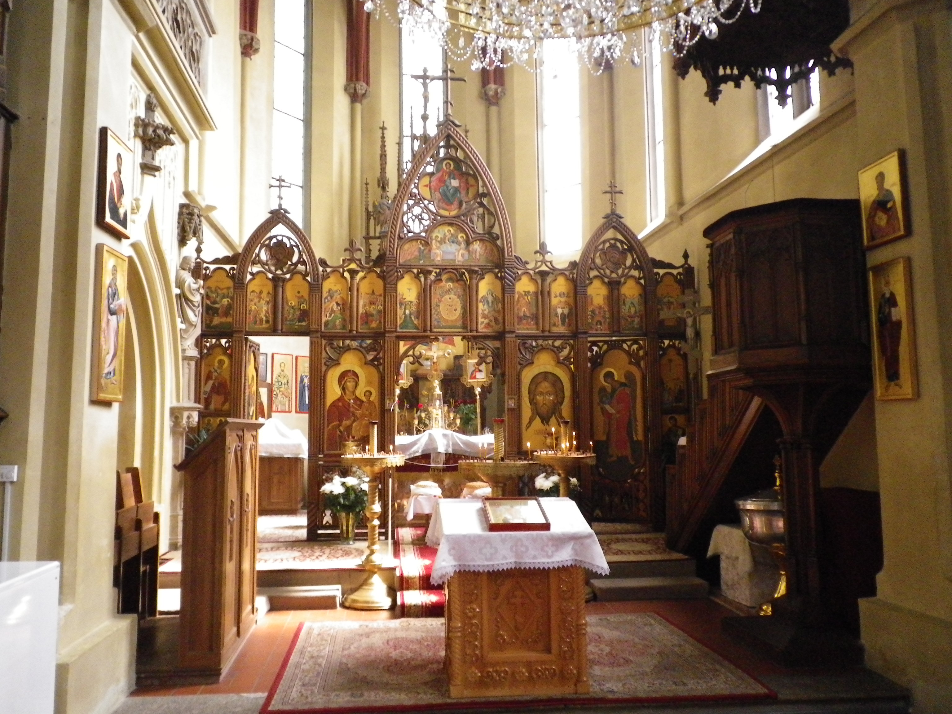 Orthodox Church of the Annunciation of the Blessed Virgin Mary in Prague main altar